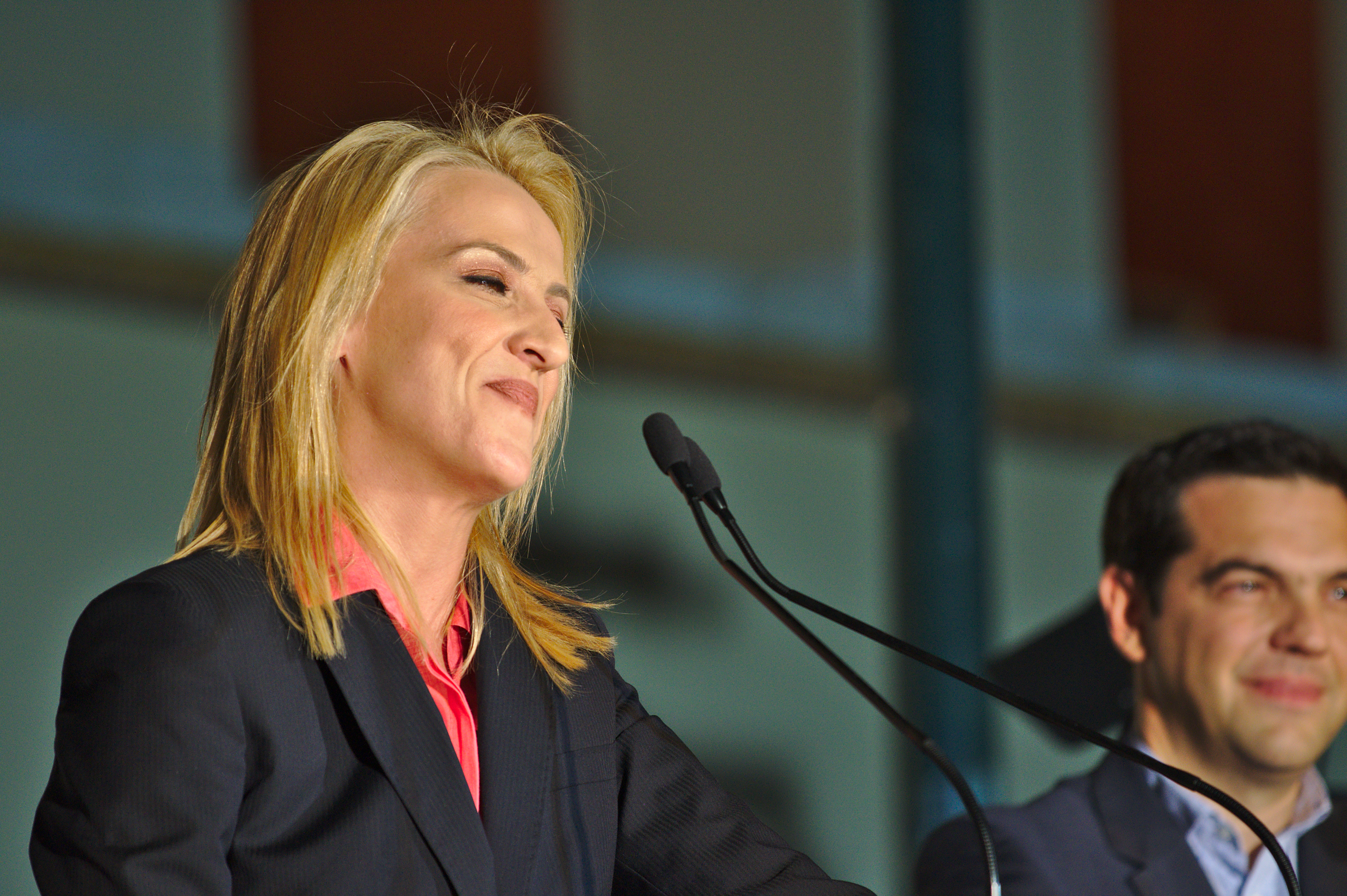 Rena Dourou speaks to supporters after the May 25 2014 elections while Alexis Tsipras stands to one side